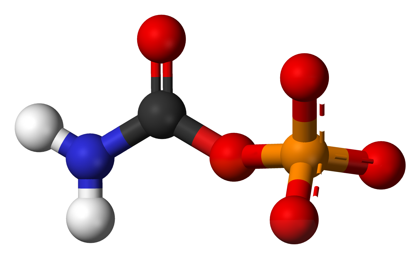 Ball-and-stick model of the carbamoyl phosphate molecule, a compound of biochemical significance, shown here as a 2- ion.